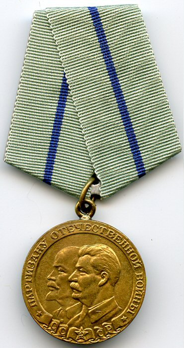 Medal "Partisan of the Patriotic War" 2nd class (obverse)